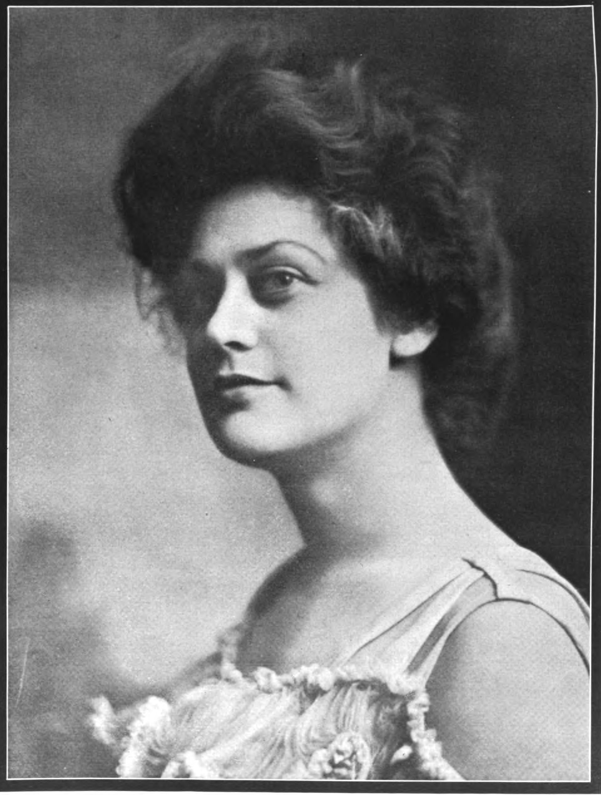 Augusta Glosé was an American actress and singer in Charles Frohman's company.